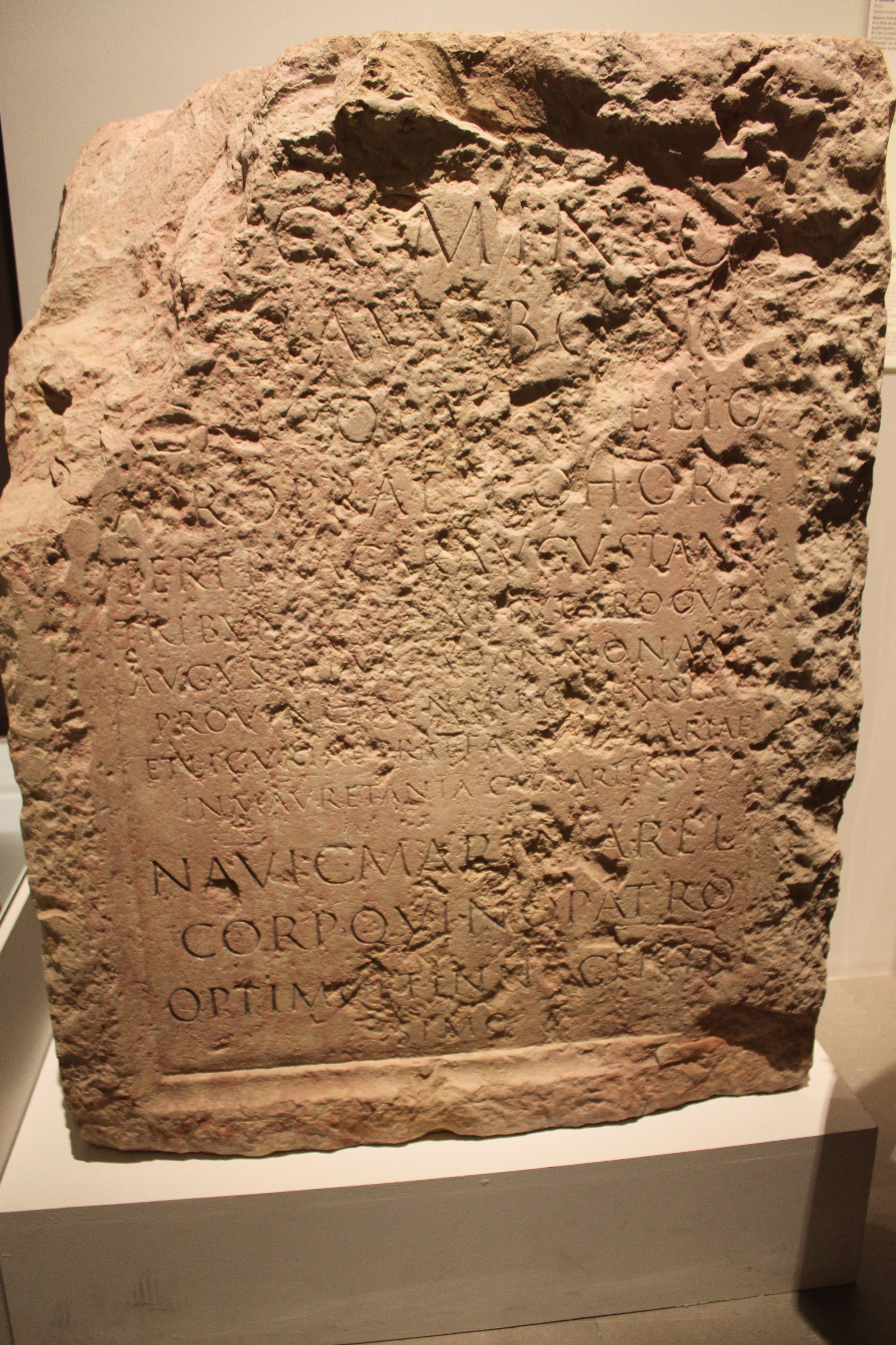 Ancient Roman inscription from Arles honouring C. Cominius Agricola, a Roman knight.